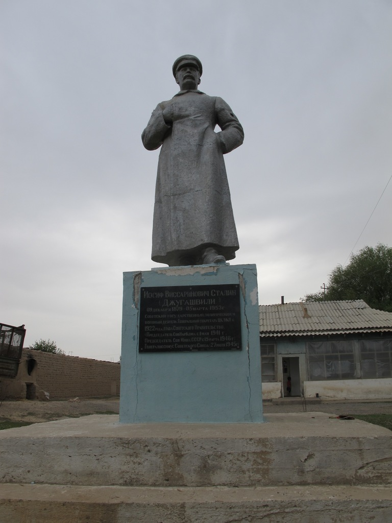 Nowadays it is the last Stalin's monument on the territory of the former Soviet Union.